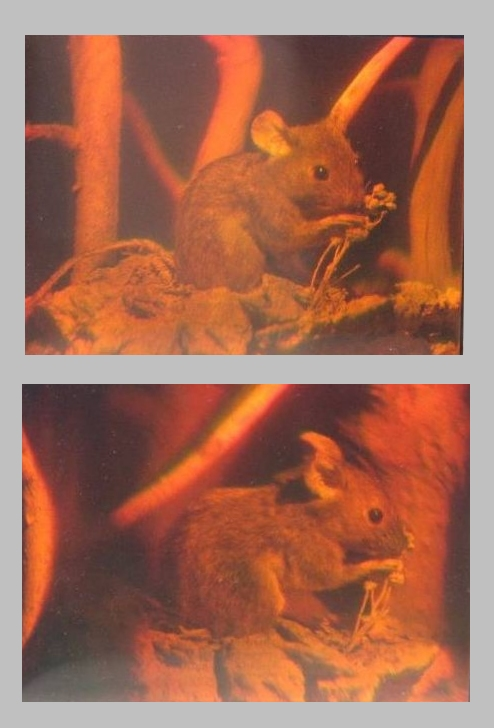 Two photos of a hologram, taken from two different views. Size of hologram ca. 13cm × 10cm.